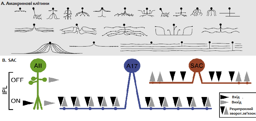 Several types of amacrine cells